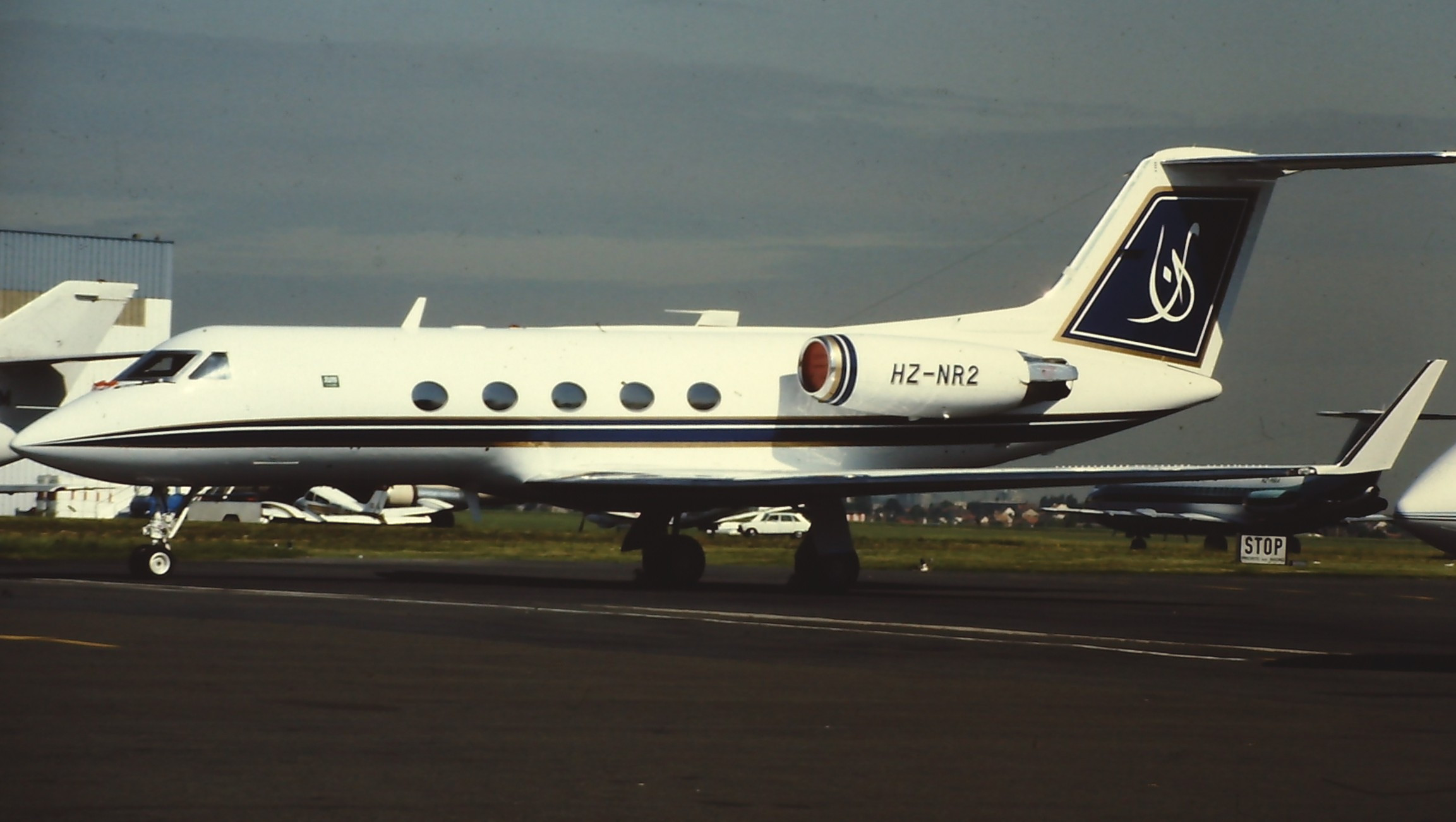 HZ-NR2 Gulfstream III business jet owned by Saudi Oger construction company at the 1981 Paris Air Show (scan from slide)